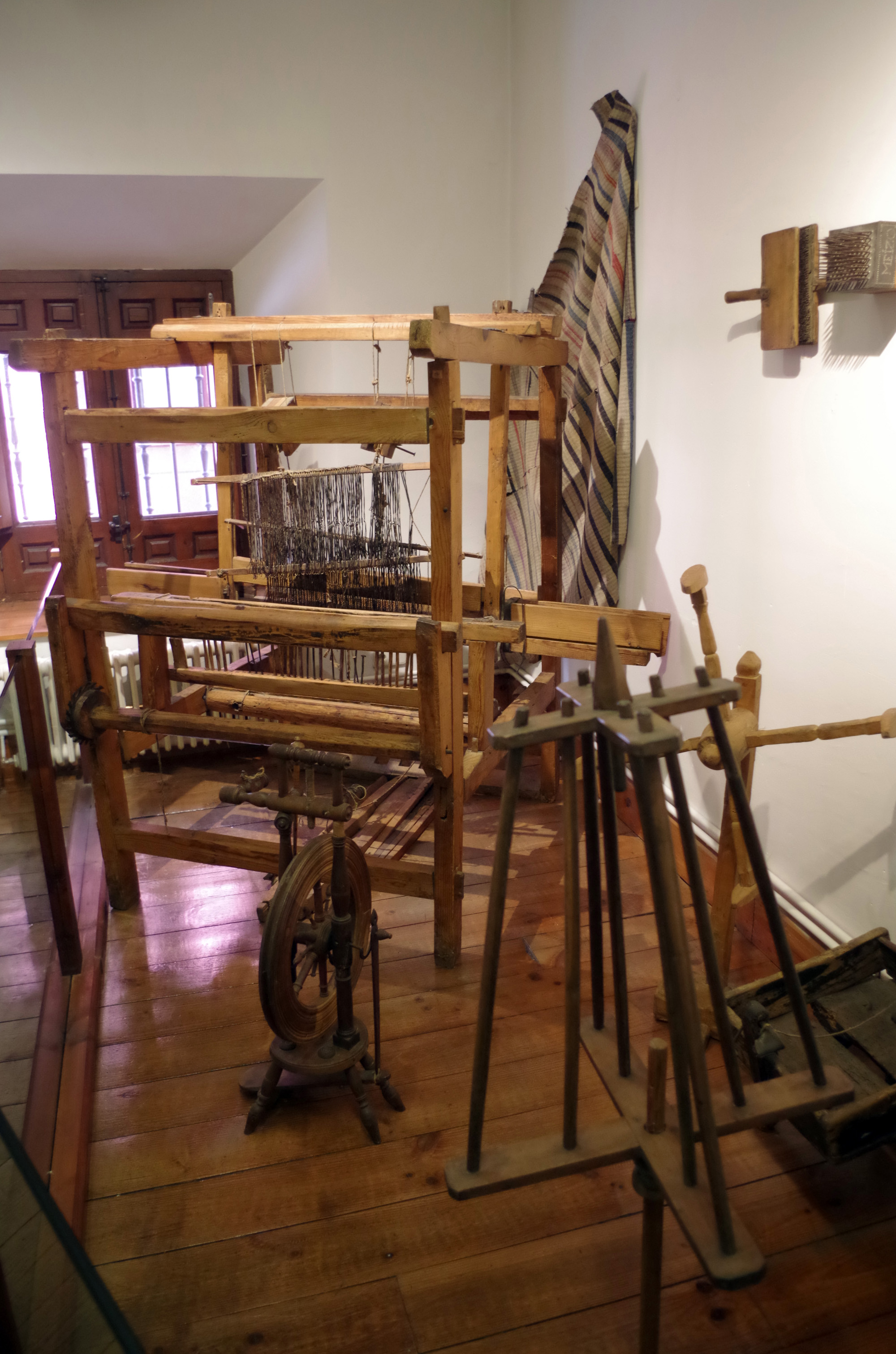 Loom and spinning wheels in Ávila Museum (Casa de los Deanes building) (Ávila, Spain).